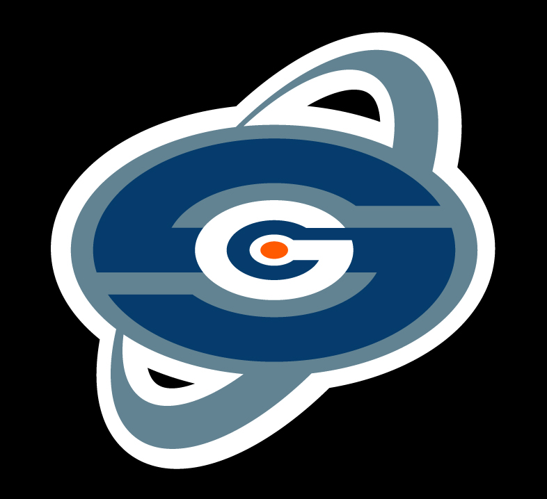 This work has been released into the public domain by its author, xoticmasrya at the English Wikipedia project. This applies worldwide. In case this is not legally possible: xoticmasrya grants anyone the right to use this work for any purpose, without any conditions, unless such conditions are required by law. SG. MHz Networks, Falls Church, VA